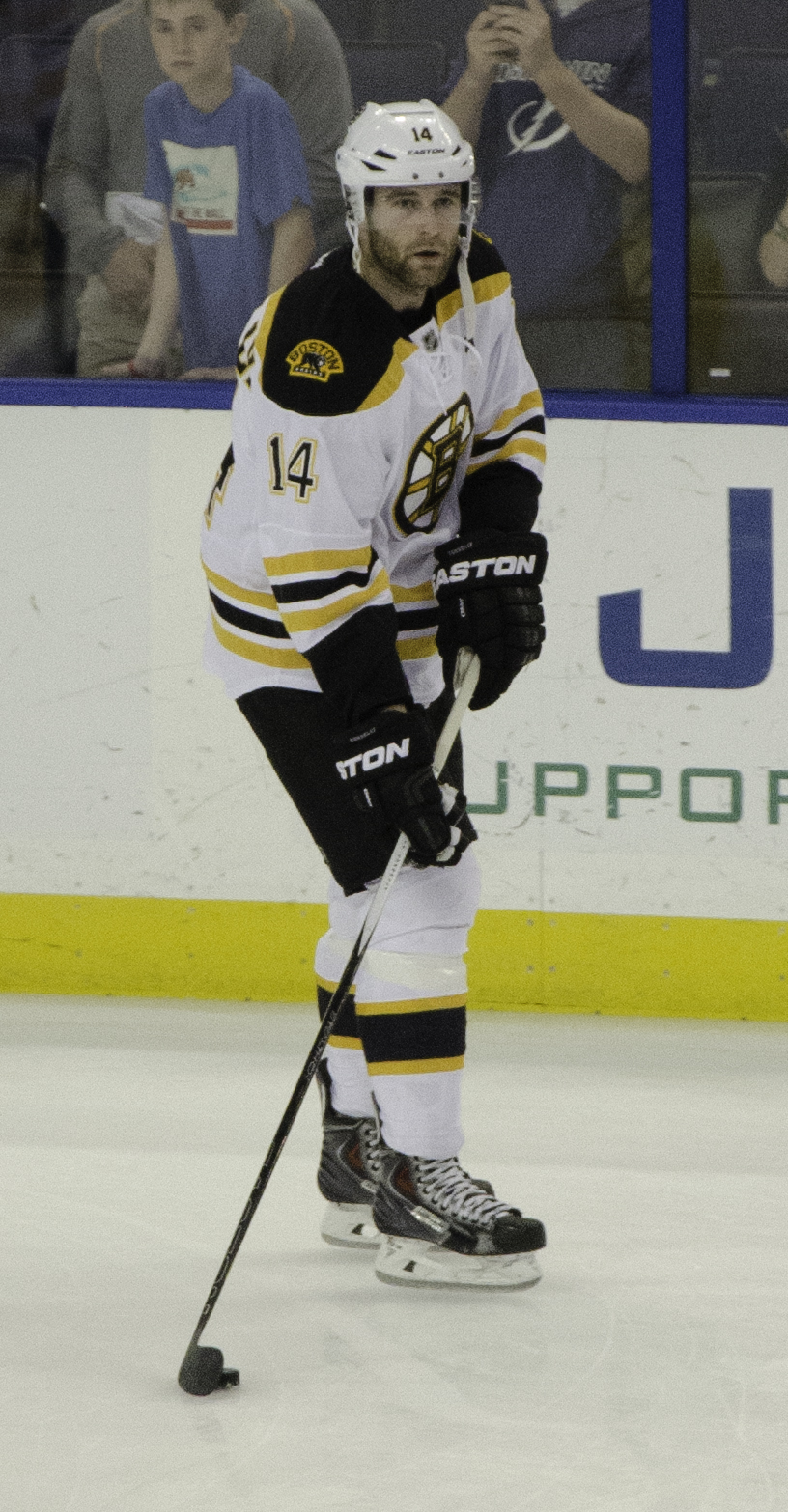 Brett Connolly during the warmup to the Boston Bruins at Tampa Bay Lightning game 11 April 2015.